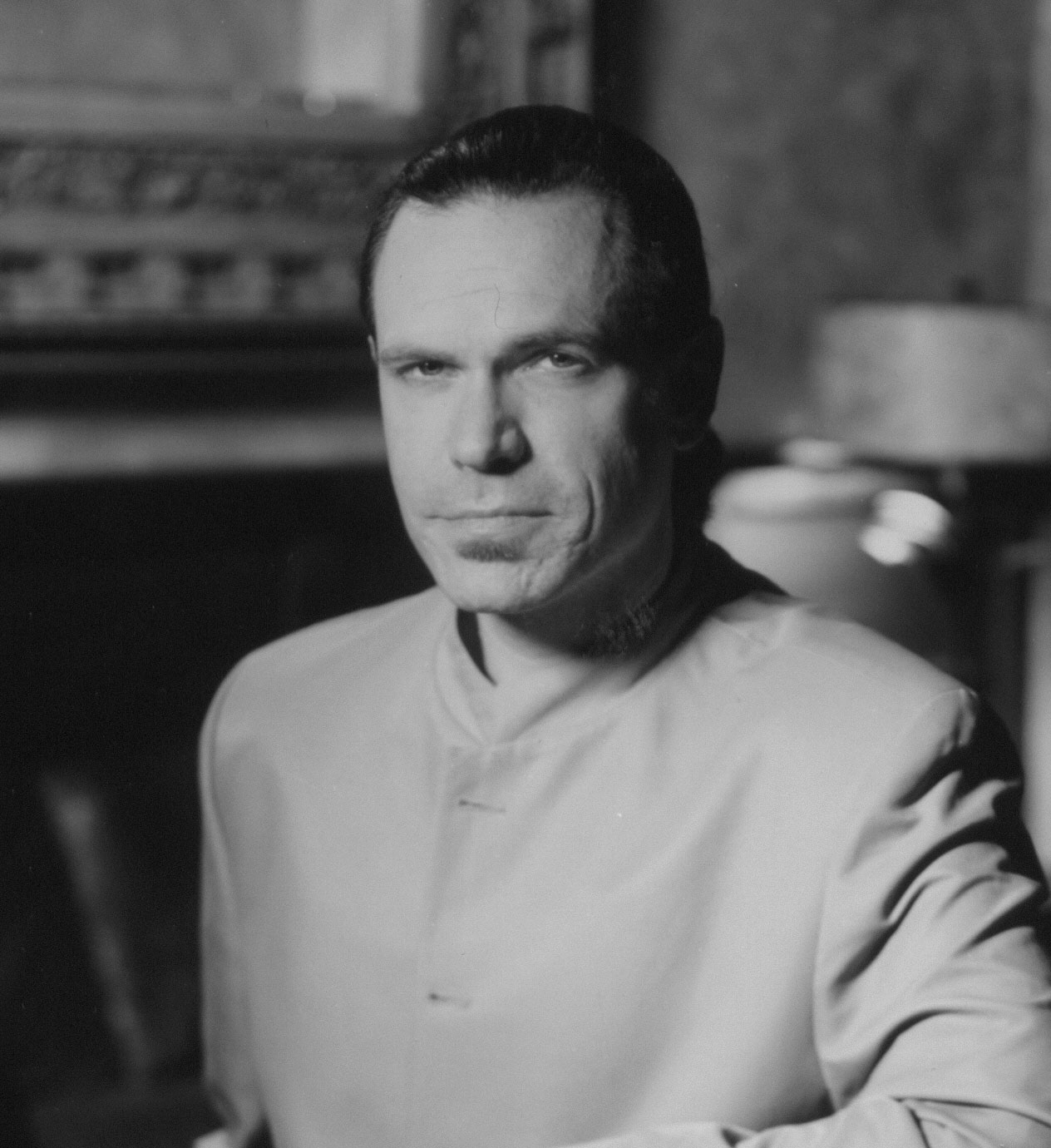 Jazz singer Kurt Elling.